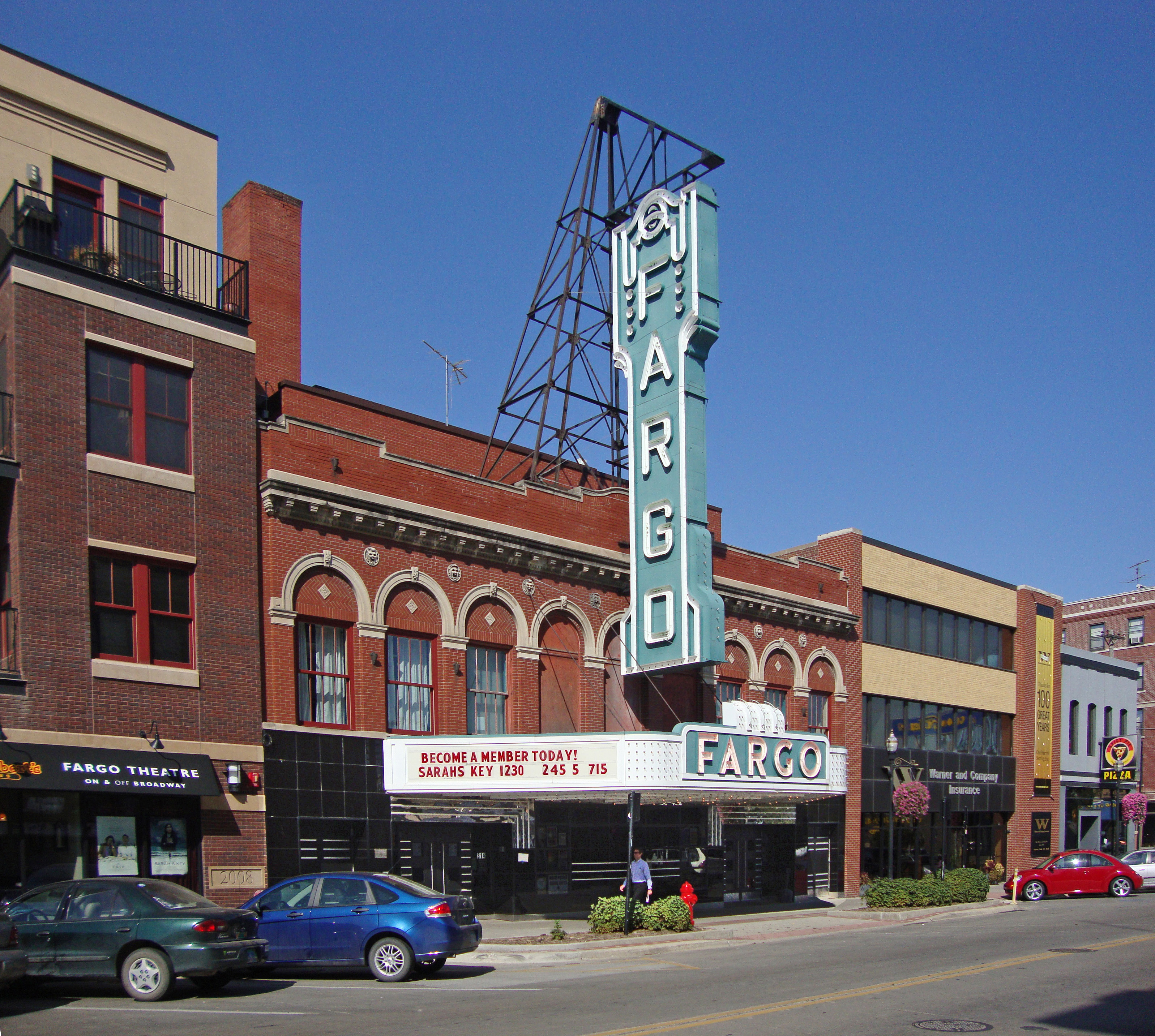 Fargo Theatre